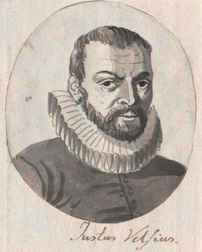 Portrait Justus Velsius